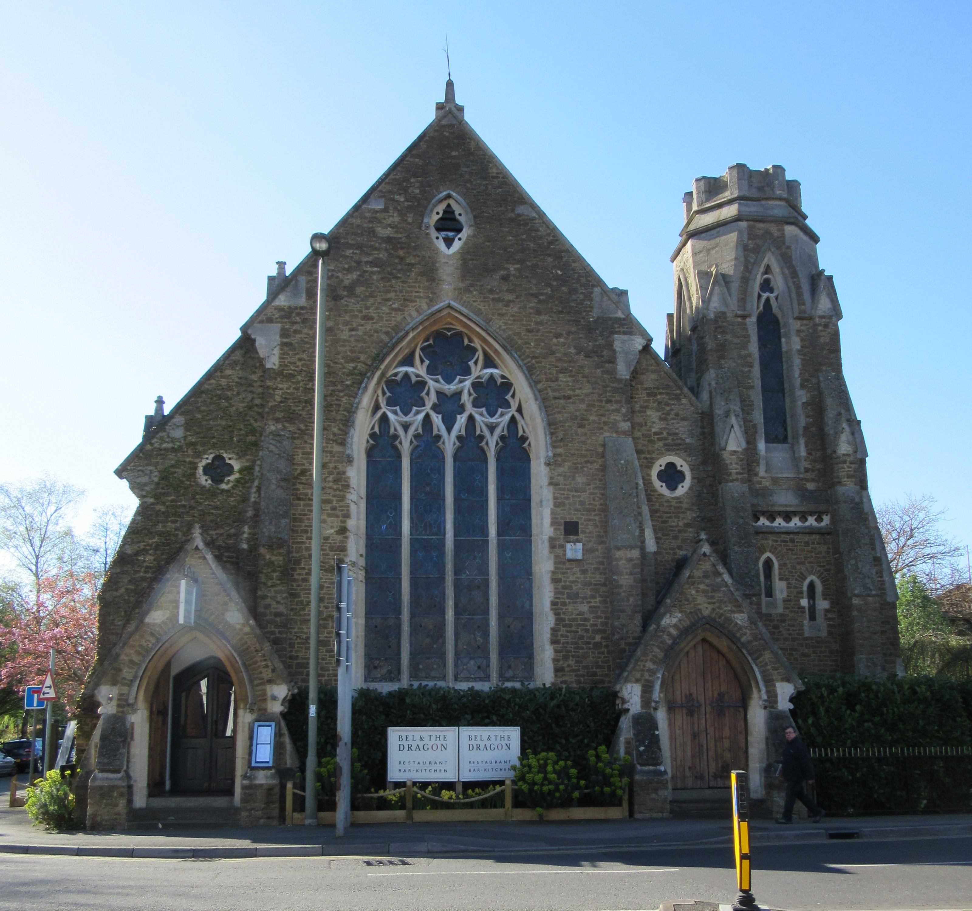 Former Godalming Congregational Church, Bridge Road, Godalming, Borough of Waverley, Surrey, England. Now a restaurant.